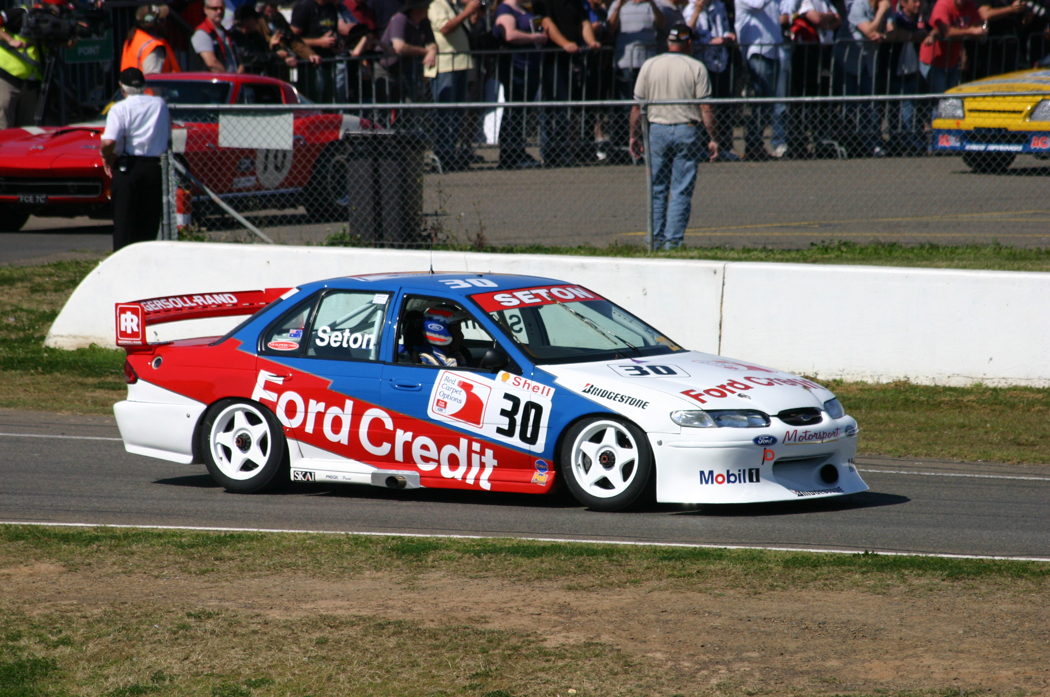 The Ford EL Falcon in which Glenn Seton won the 1997 Australian Touring Car Championship. The car is pictured at the 2011 Muscle Car Masters.